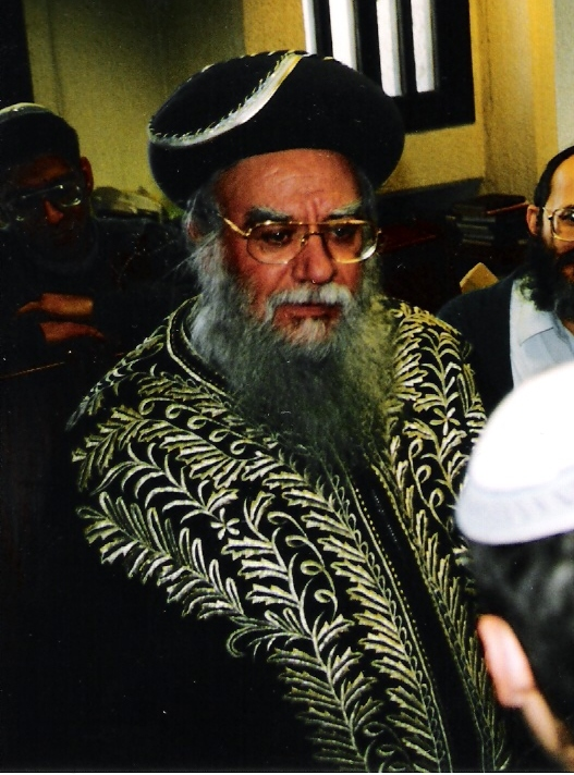 Rabbi Eliyahu Bakshi-Doron at Yeshiva Hakotel in Jerusalem